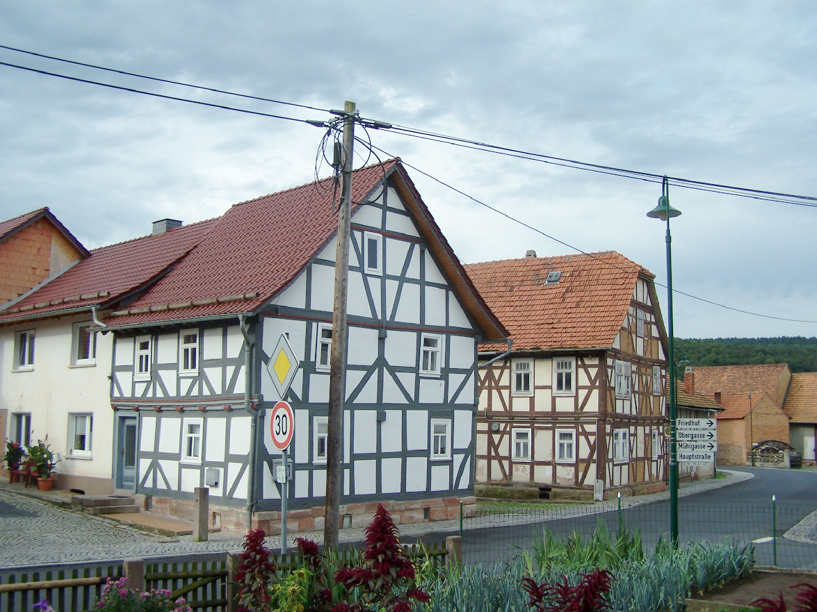 Typical timberframed buildings in Grossensee.